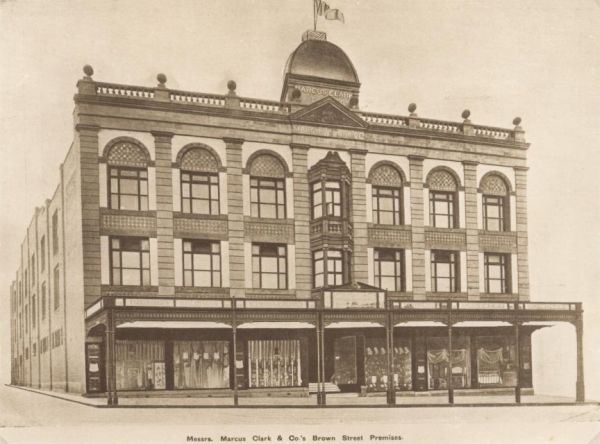 Marcus Clark Newtown Store. Jubilee Souvenir of the Municipality of Newtown, Austral Press, Sydney, 1912, p. 169